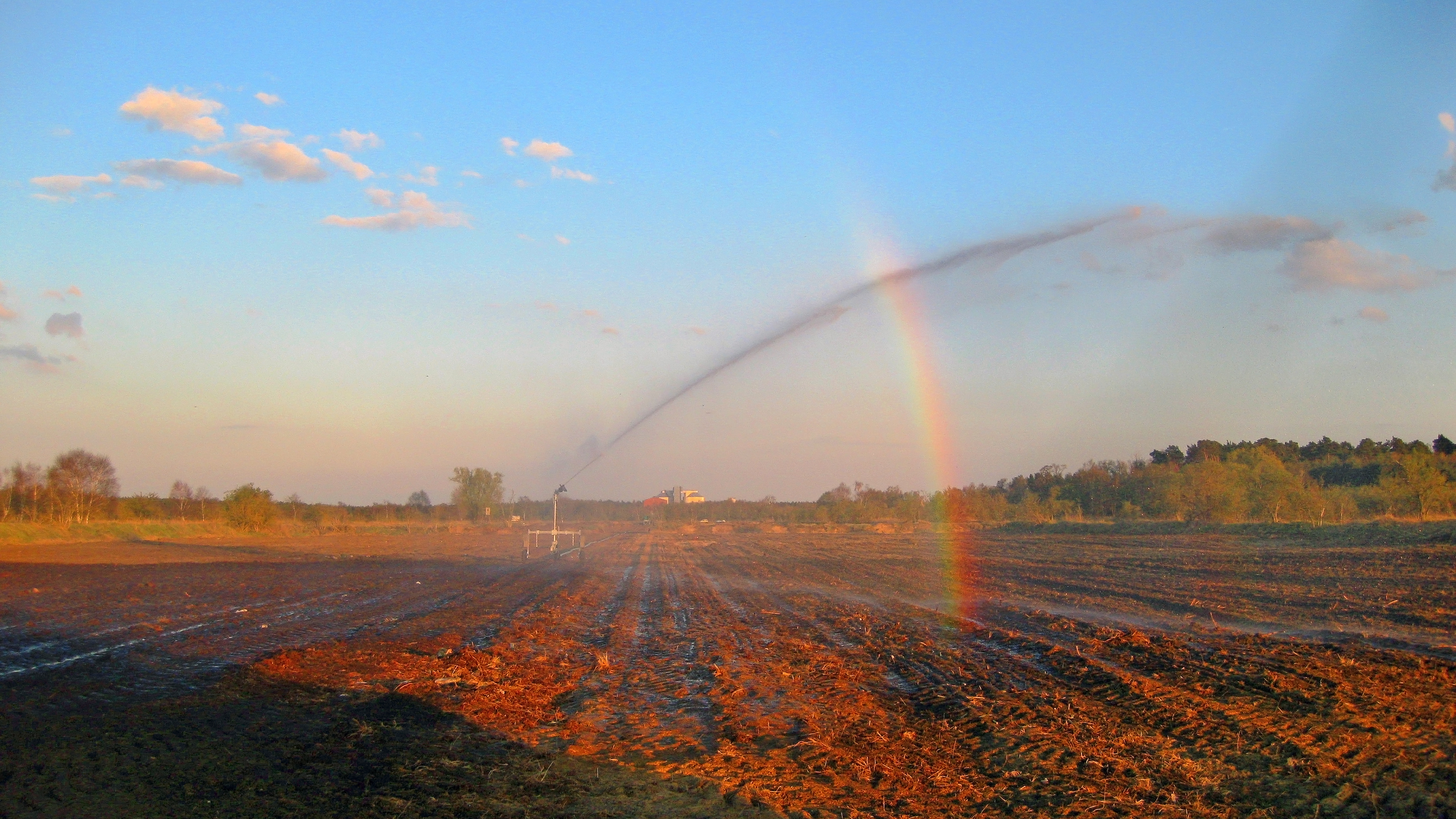 The picture shows how in the context of a pilotproject on the former sewage farm in Wansdorf the area is watered with cleaned water.